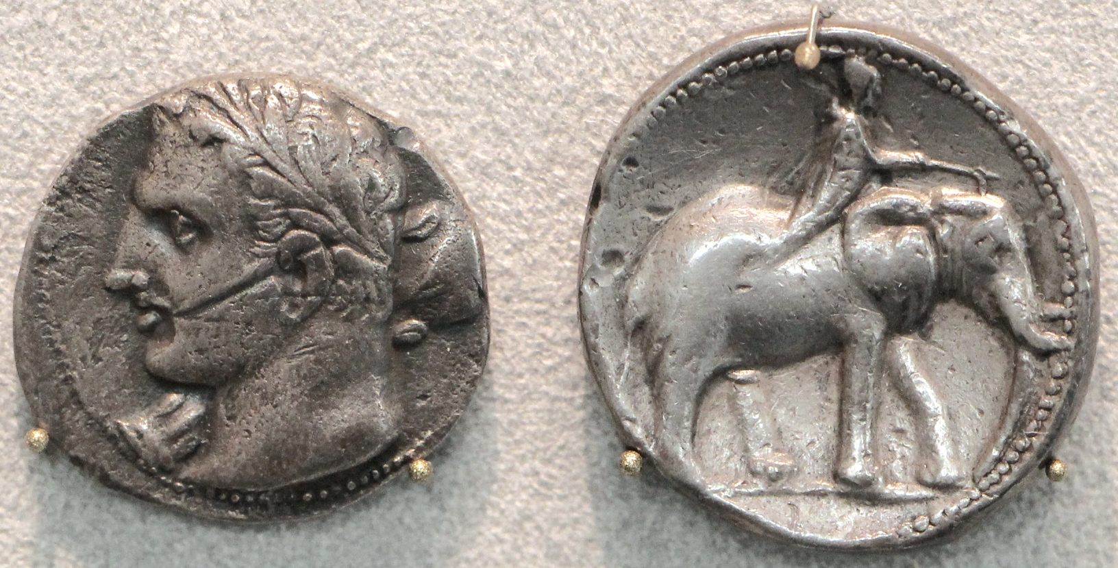 Ancient Greek coins in the Altes Museum Berlin